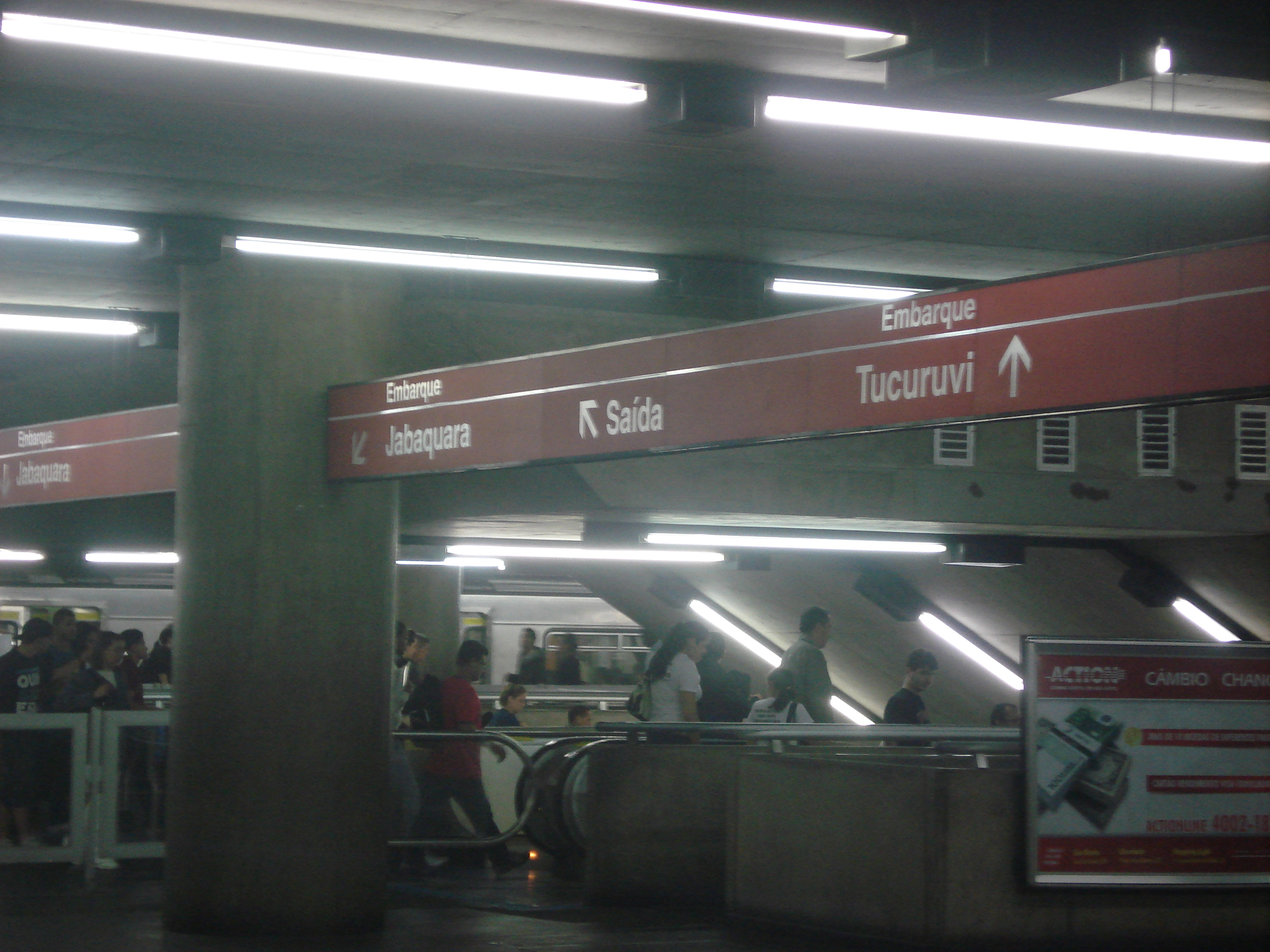 Sé Station - Line 3 - Red of São Paulo Metro.